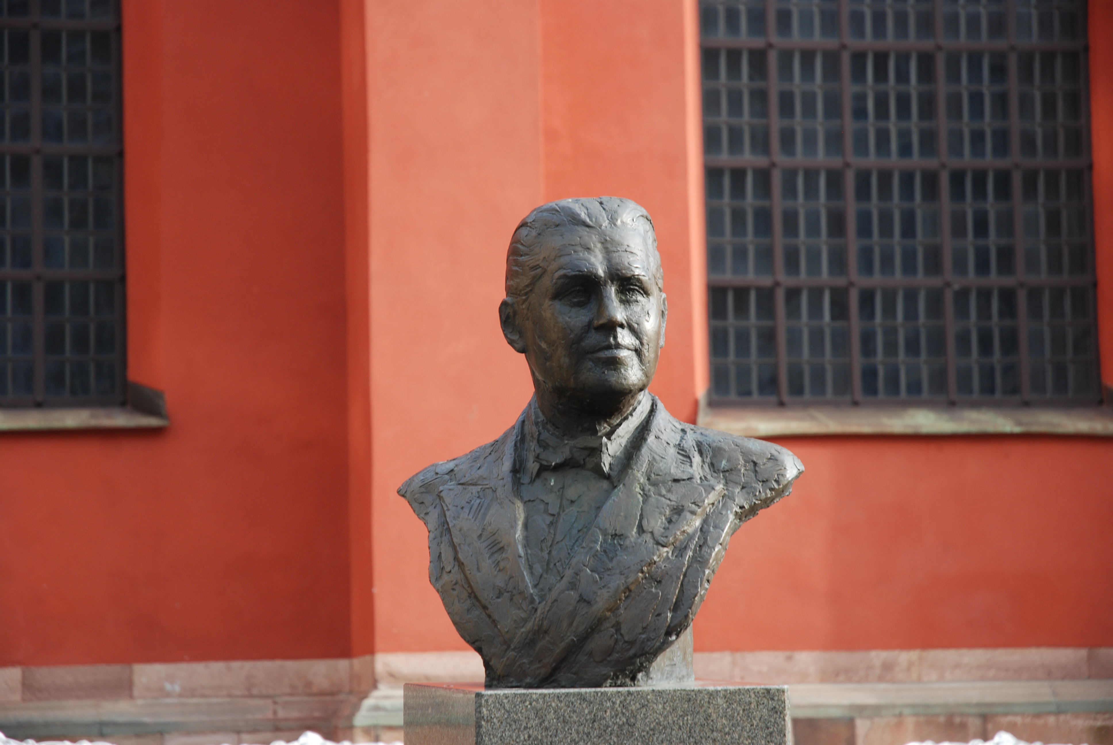 Bust of Jussi Björling by Pieter de Monchy 1961, outside Jakobs kyrka, Stockholm